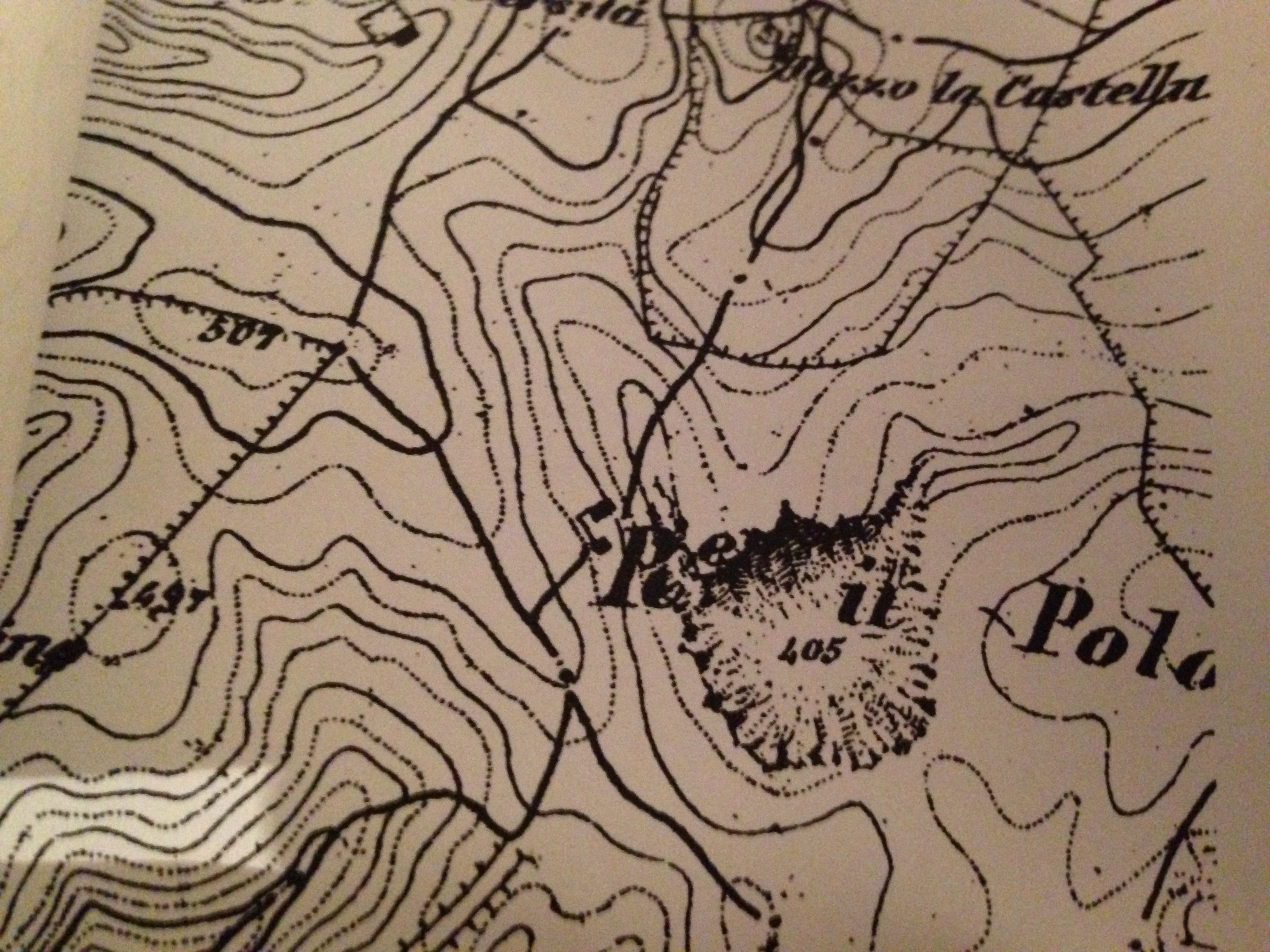 Pulo di Altamura - Map dating back to the final years of the 19th century - the toponym "Pulo" incorrectly spelled as "Polo"